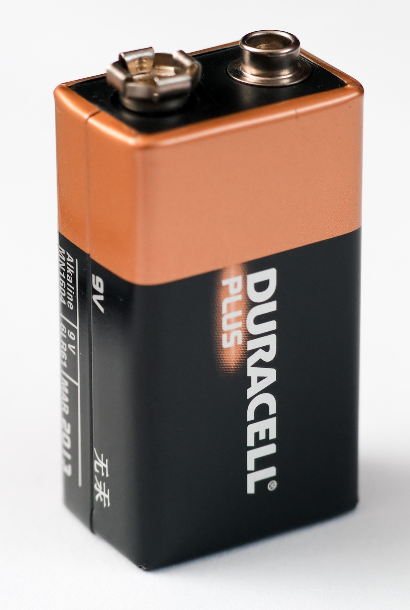 A Duracell 9-Volt battery.